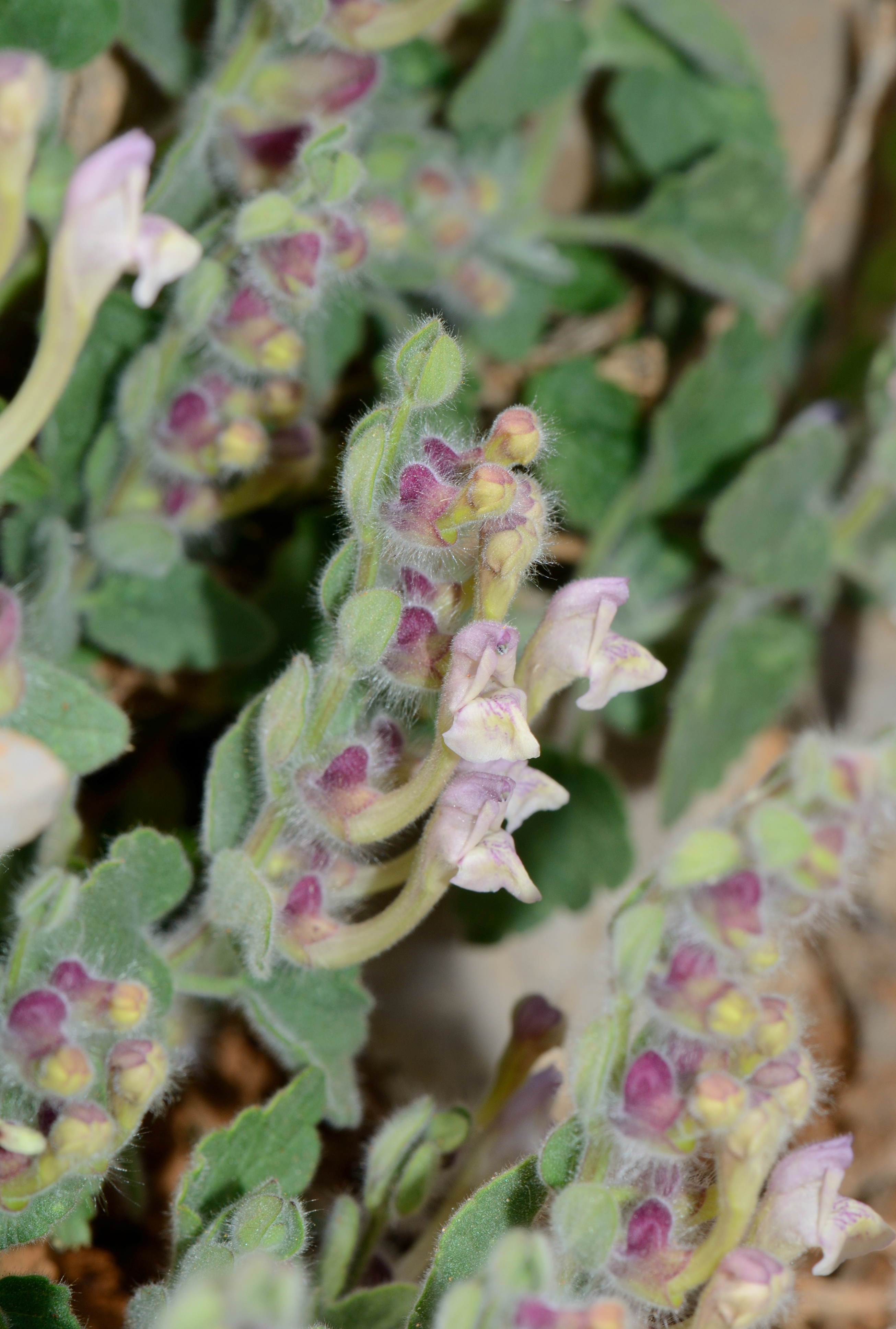 Scutellaria utriculata Labill., Mount Hermon, Golan Heights, June 22, 2012.